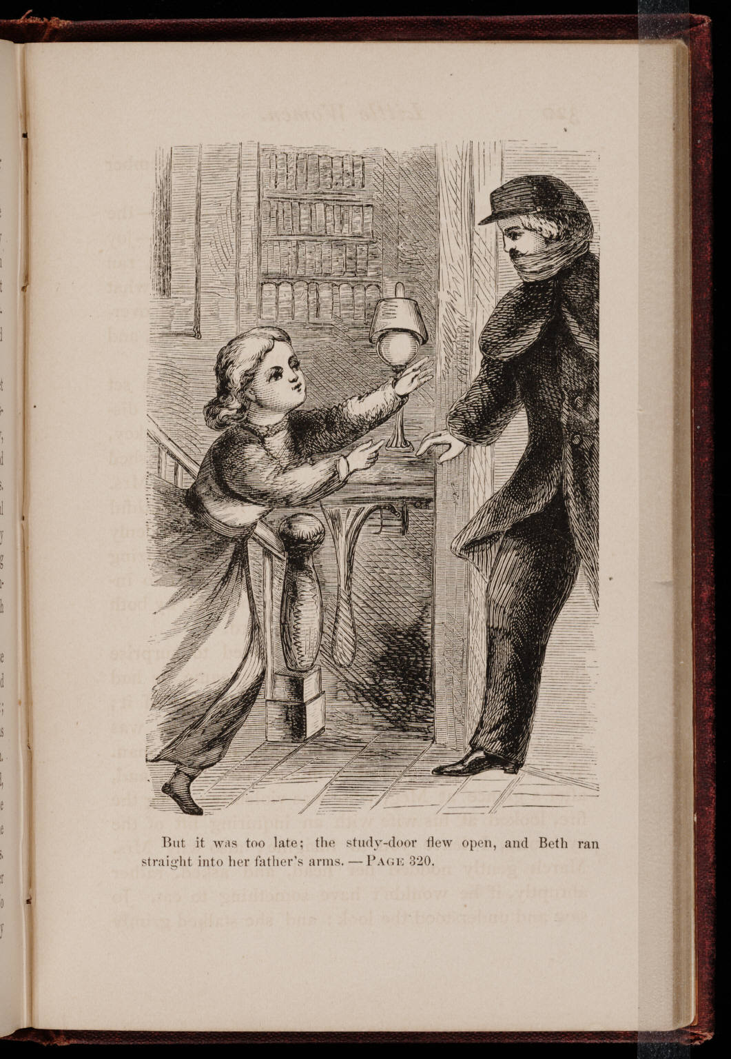 But it was too late; the study-door flew open, and Beth ran straight into her father's arms [illustration opposite page 320]. Illus. by May Alcott. From: Little Women. By L.M. Alcott. Boston: Roberts Bros, 1868